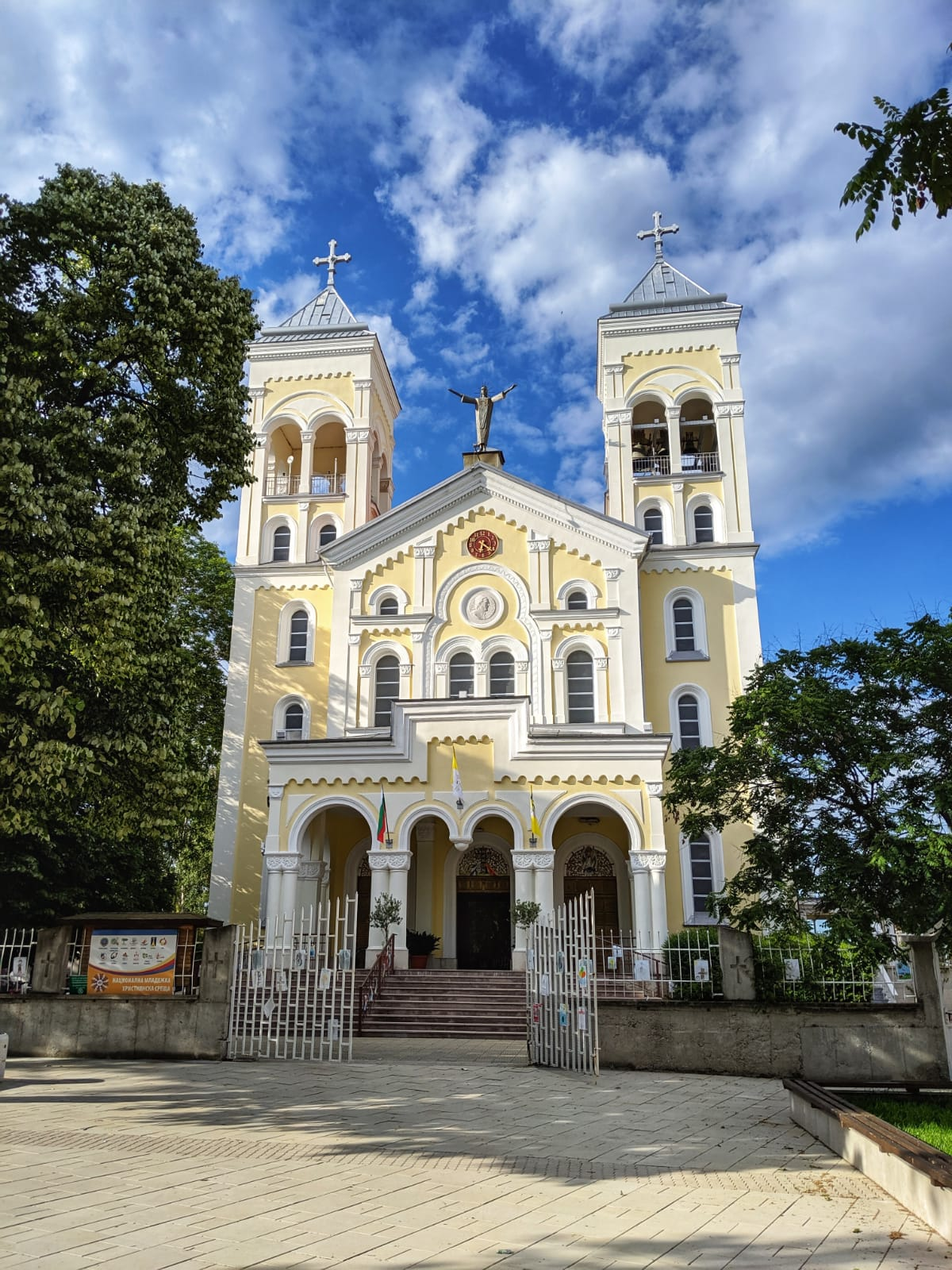 Church in General-Nikolaevo, towship of Rakovski